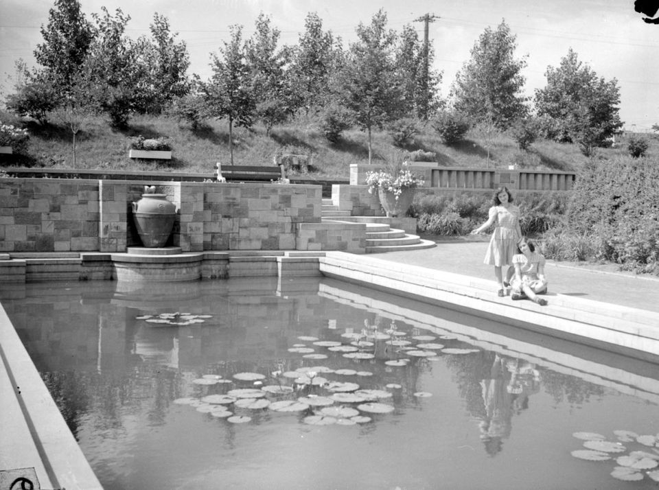 The twins Hélène and Jacqueline Saint-Jean are at the edge of a pond at the Montreal Botanical Garden. Round lily pads are spread out over the water.